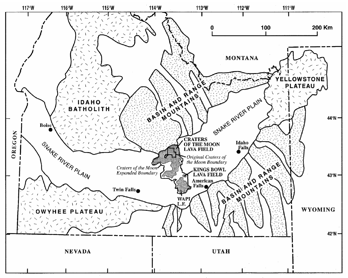 schematic map of the Snake River Plain, Idaho, USA with Crater of the Moon National Monument and Preserve marked.